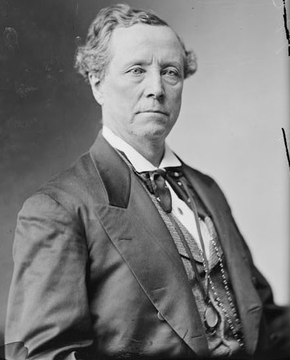 Kentucky Congressman Thomas Laurens Jones